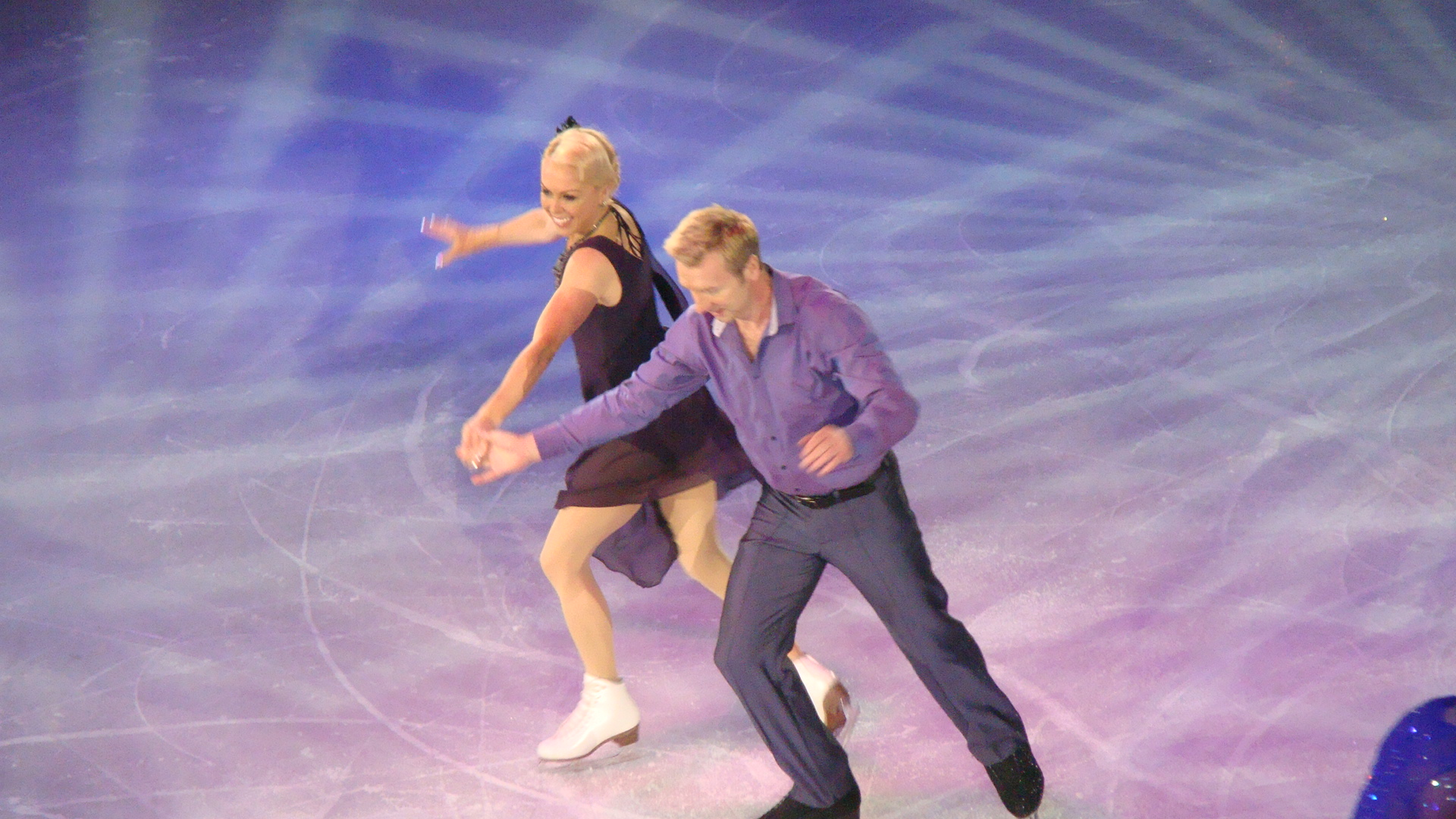 Manchester M.E.N Arena 1.30pm Sunday 1st May 2011.